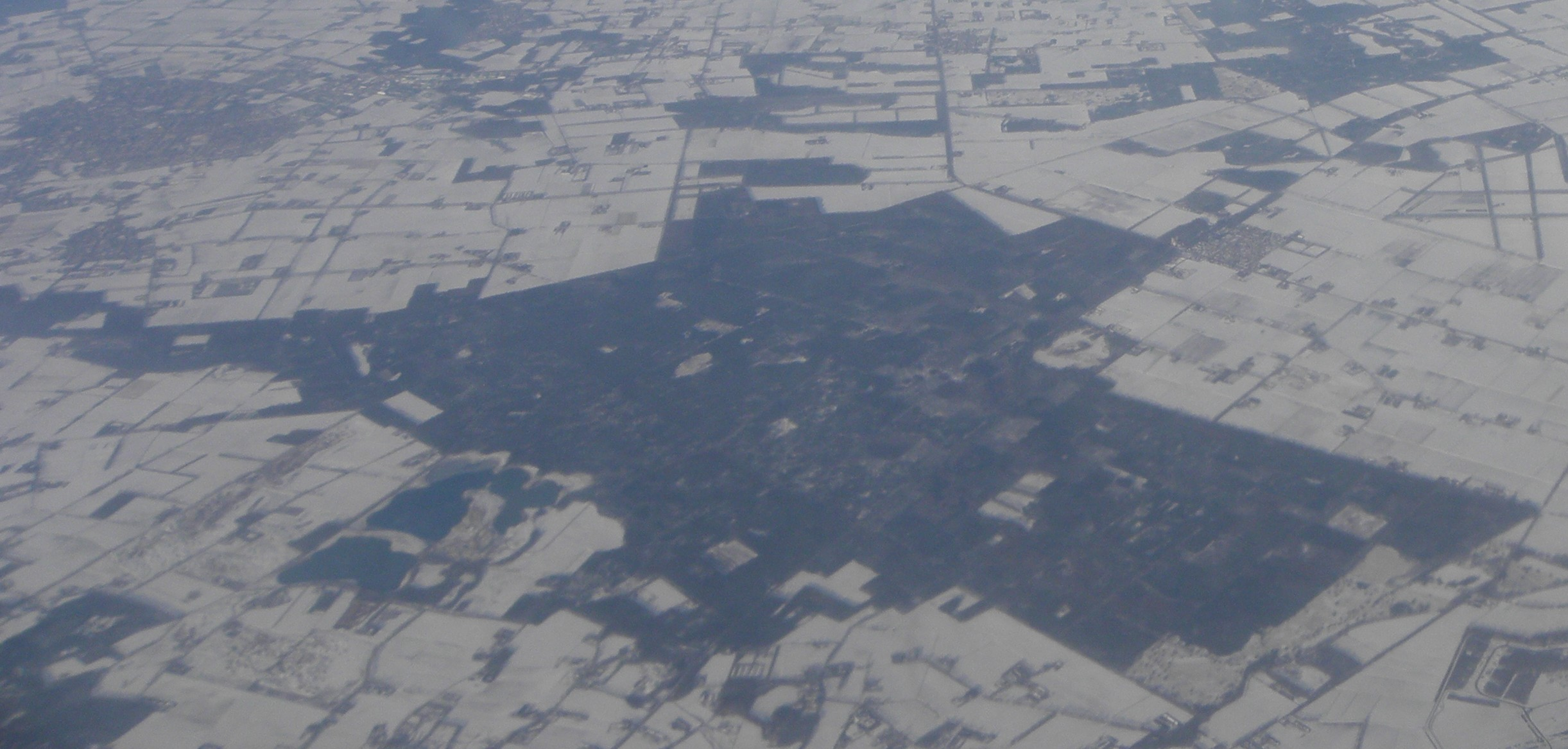 Aerial view of the Stippelberg in the Netherlands